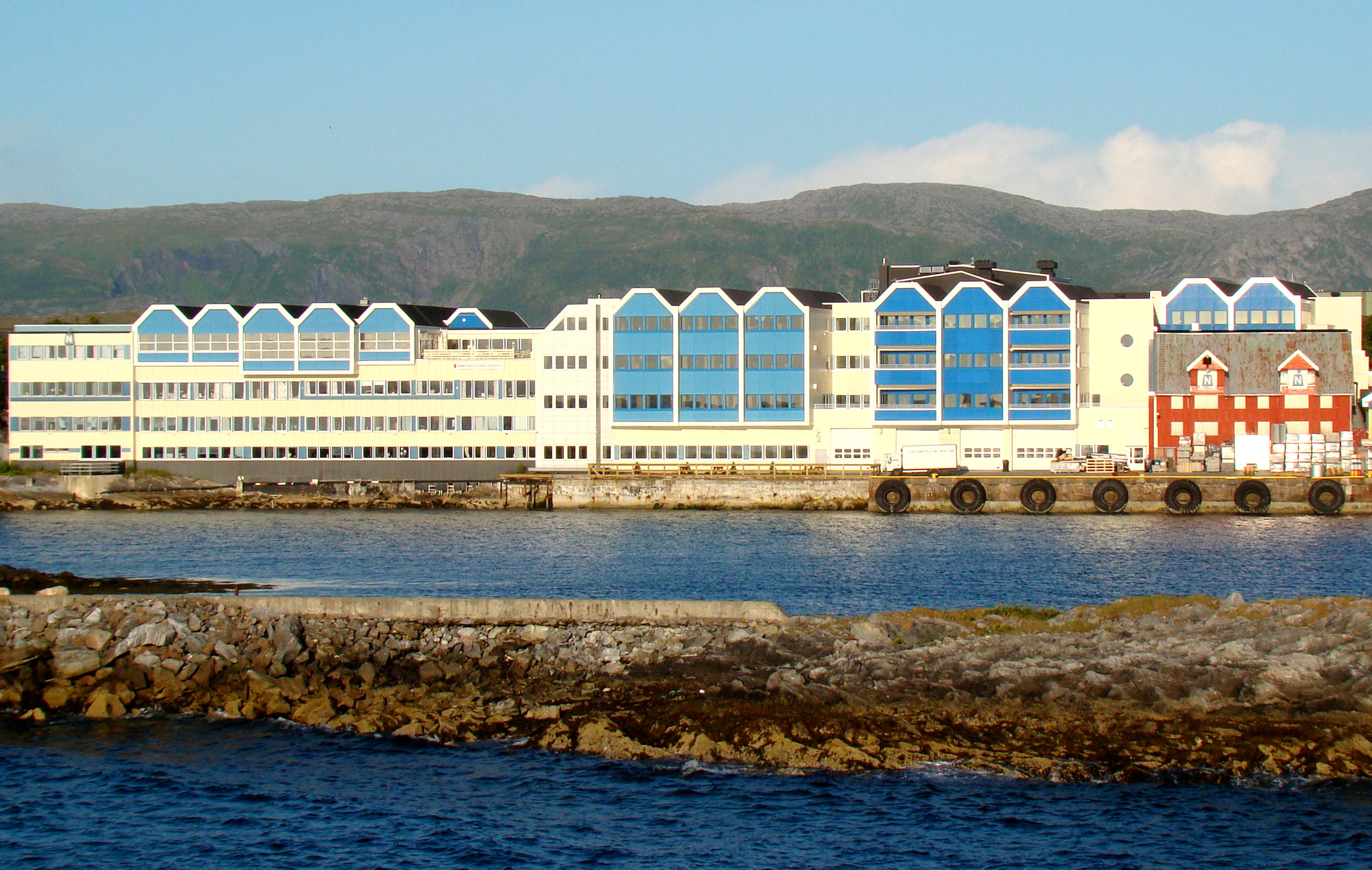 The Brønnøysund Register Centre seen from the west, front against the sea. Circa 500 employees work here.